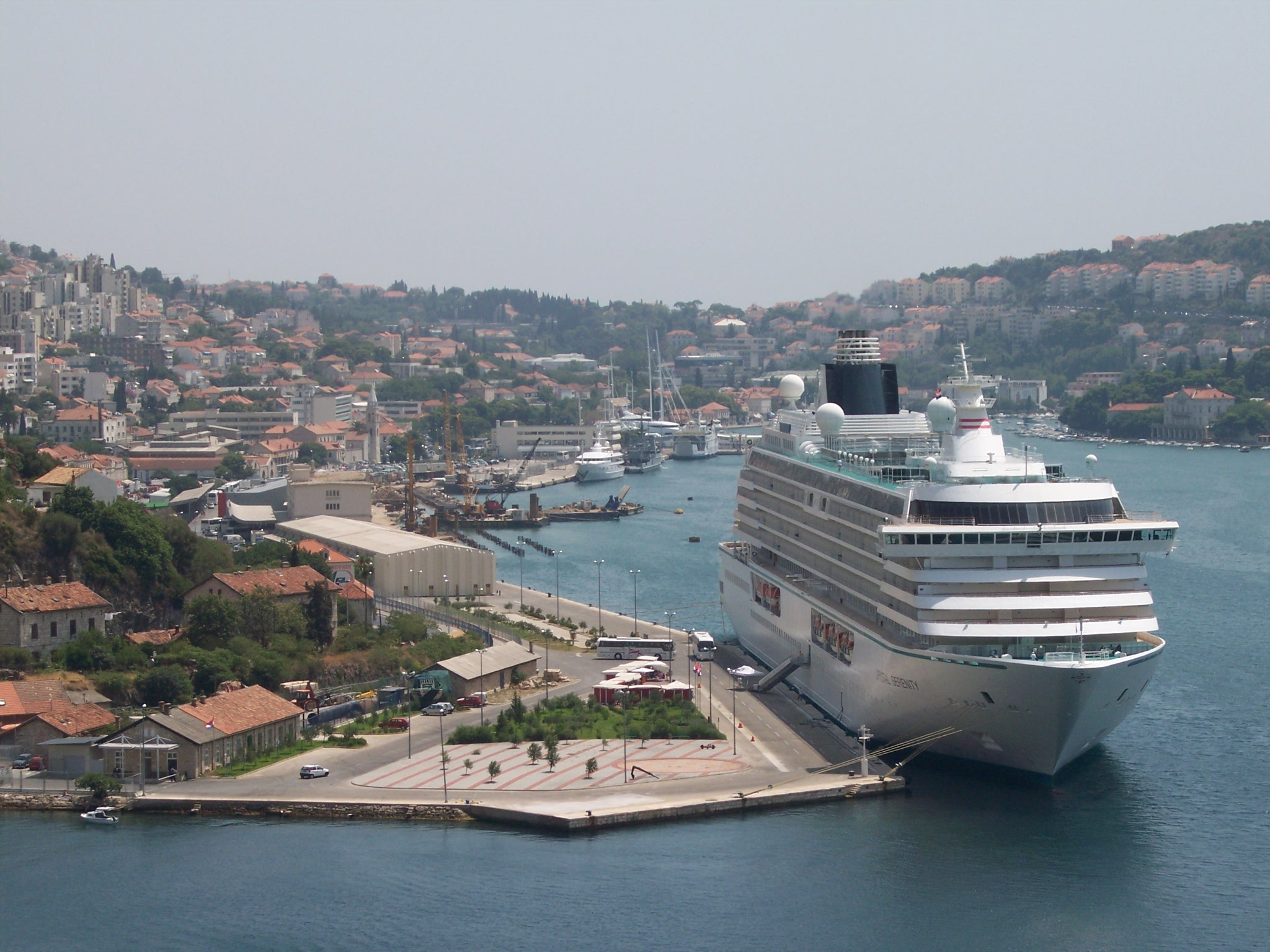 View on Dubrovnik (Croatia), with the Crystal Serenity in port